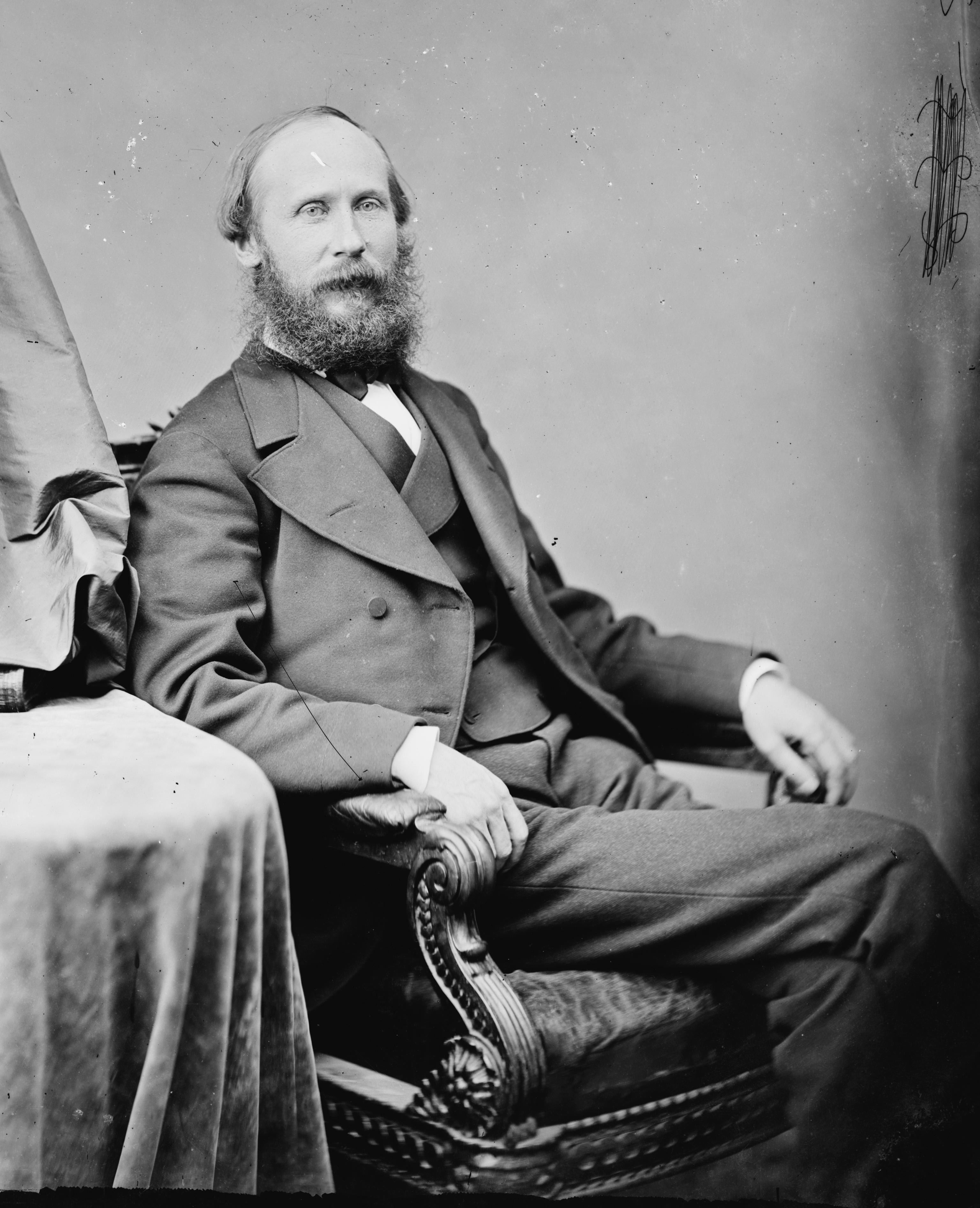 John R. McPherson. Library of Congress description: "Hon. John Rhoderic McPherson of N.J."